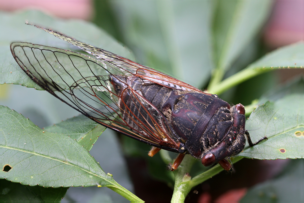 Cicada_Black Prince (Psaltoda plaga), Tennyson Point, Sydney